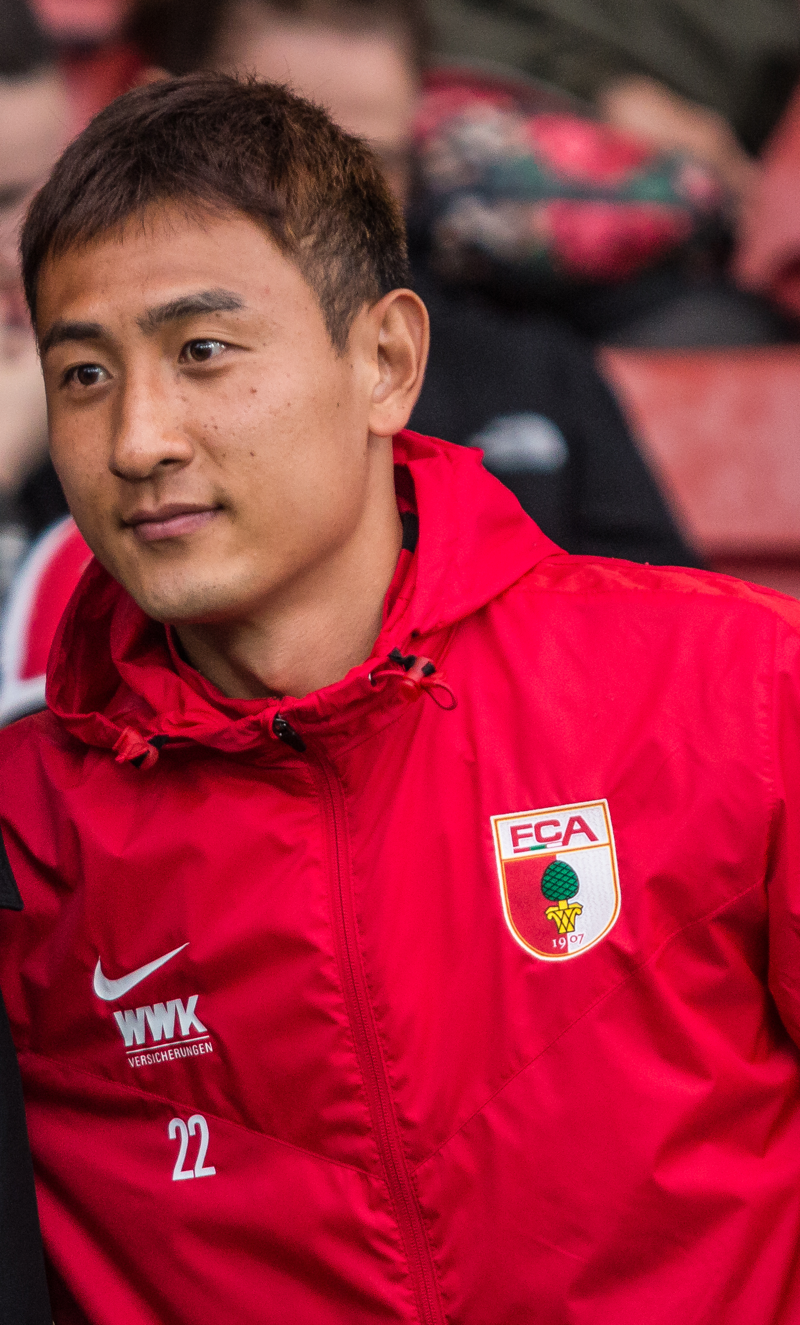 Pre-season friendly Wednesday 2 August 2017 Image by Lewis Commons